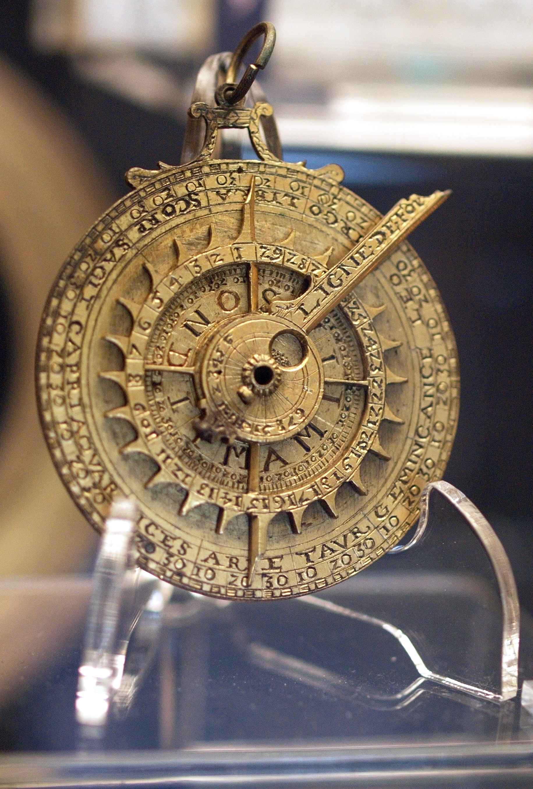 57 mm diameter. For more about this gilt brass noctural, see